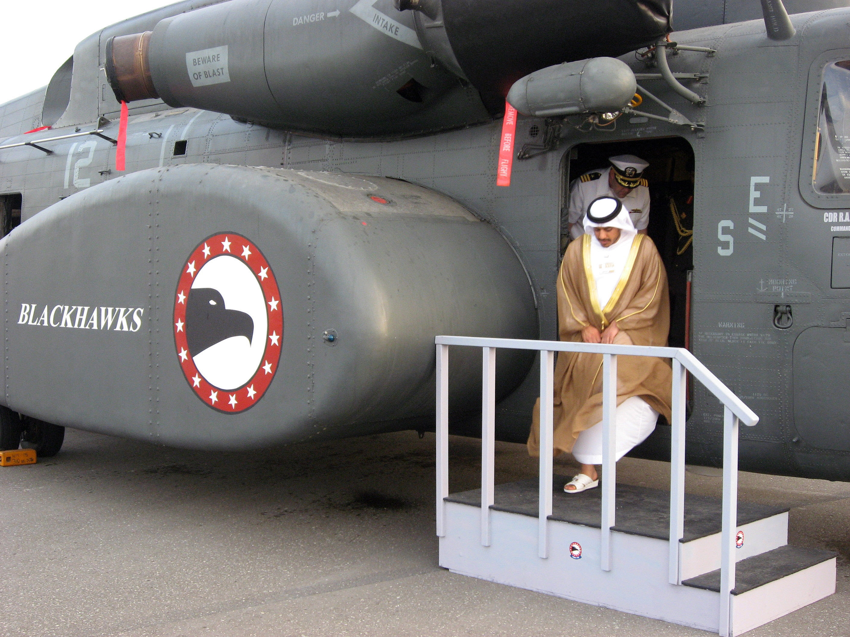 ABU DHABI, United Arab Emirates (Feb. 19, 2007) - Sheikh Sultan bin Tahnoon Al Nahyan, chairman of Abu Dhabi Tourism Authority and Abu Dhabi National Exhibitions Company, tours an MH-53 Sea Dragon helicopter from Helicopter Mine Countermeasures Squadron (HM) 15 during International Developmental Exchange (IDEX) 2007. Two U.S. Navy mine countermeasure vessels, both forward-deployed to Bahrain, and the helicopter participated in the international defense exhibition. U.S. Navy photo (RELEASED)